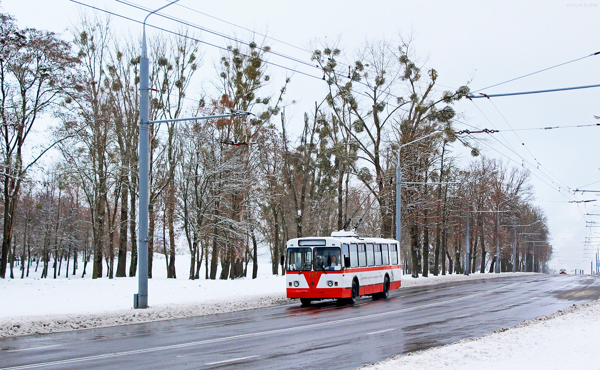 ZiU-682V trolleybus in Hrodna